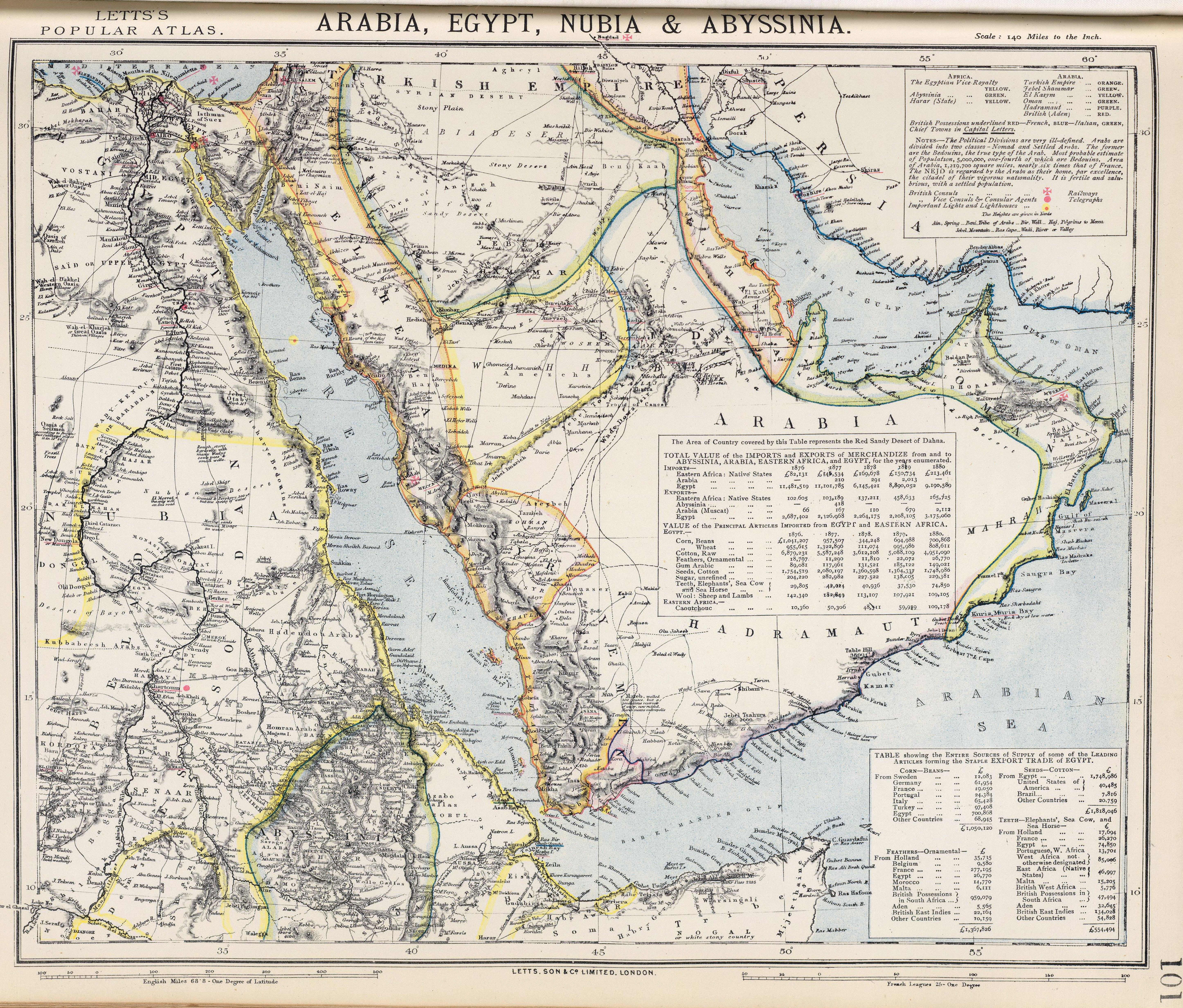 Arabia, Egypt, Nubia & Abyssinia. Part of Lett's Popular Atlas. Letts, Son & Co. Limited, London.